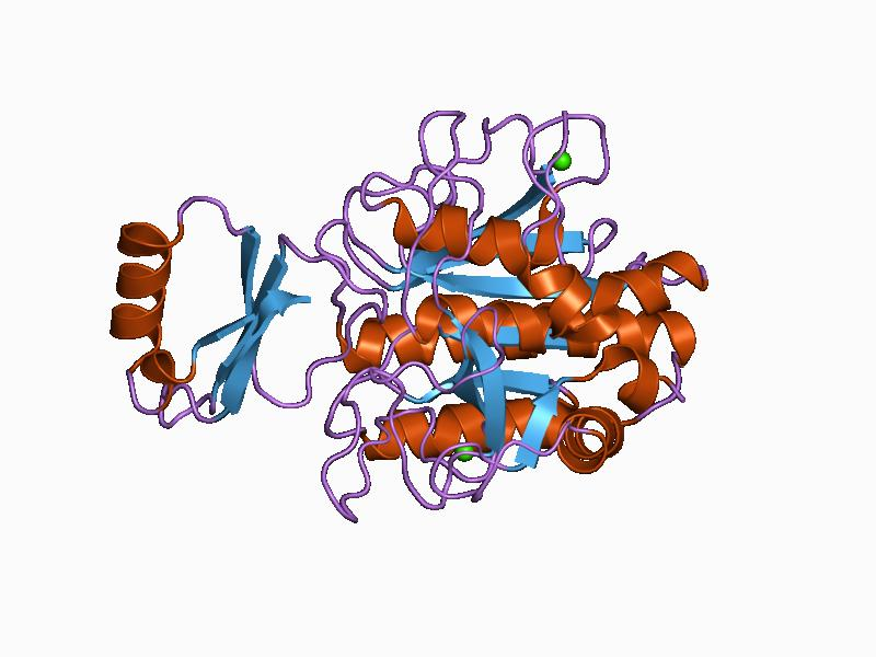 Cartoon representation of the molecular structure of protein registered with 1cse code.